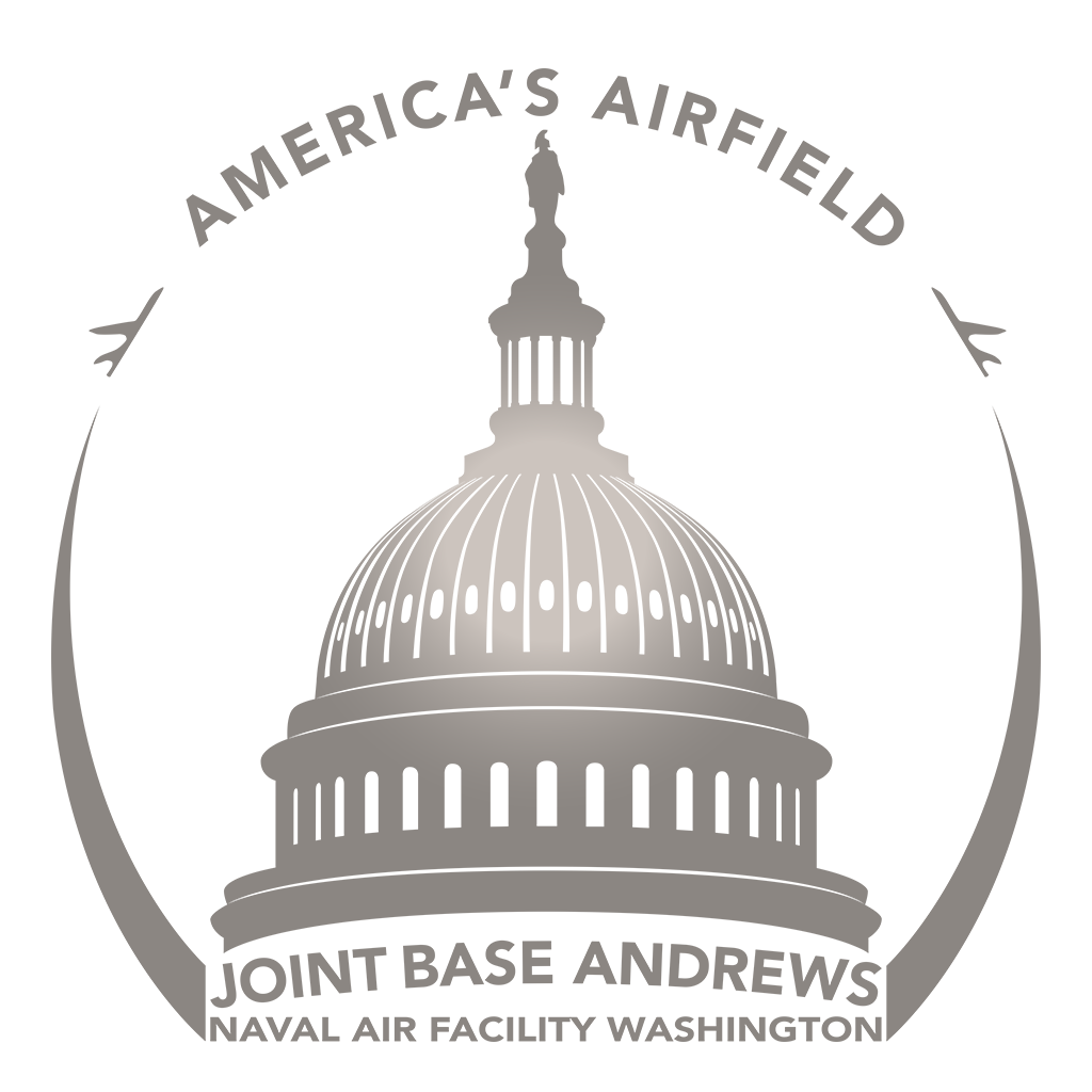 The official logo of Joint Base Andrews Naval Air Facility Washington, MD.